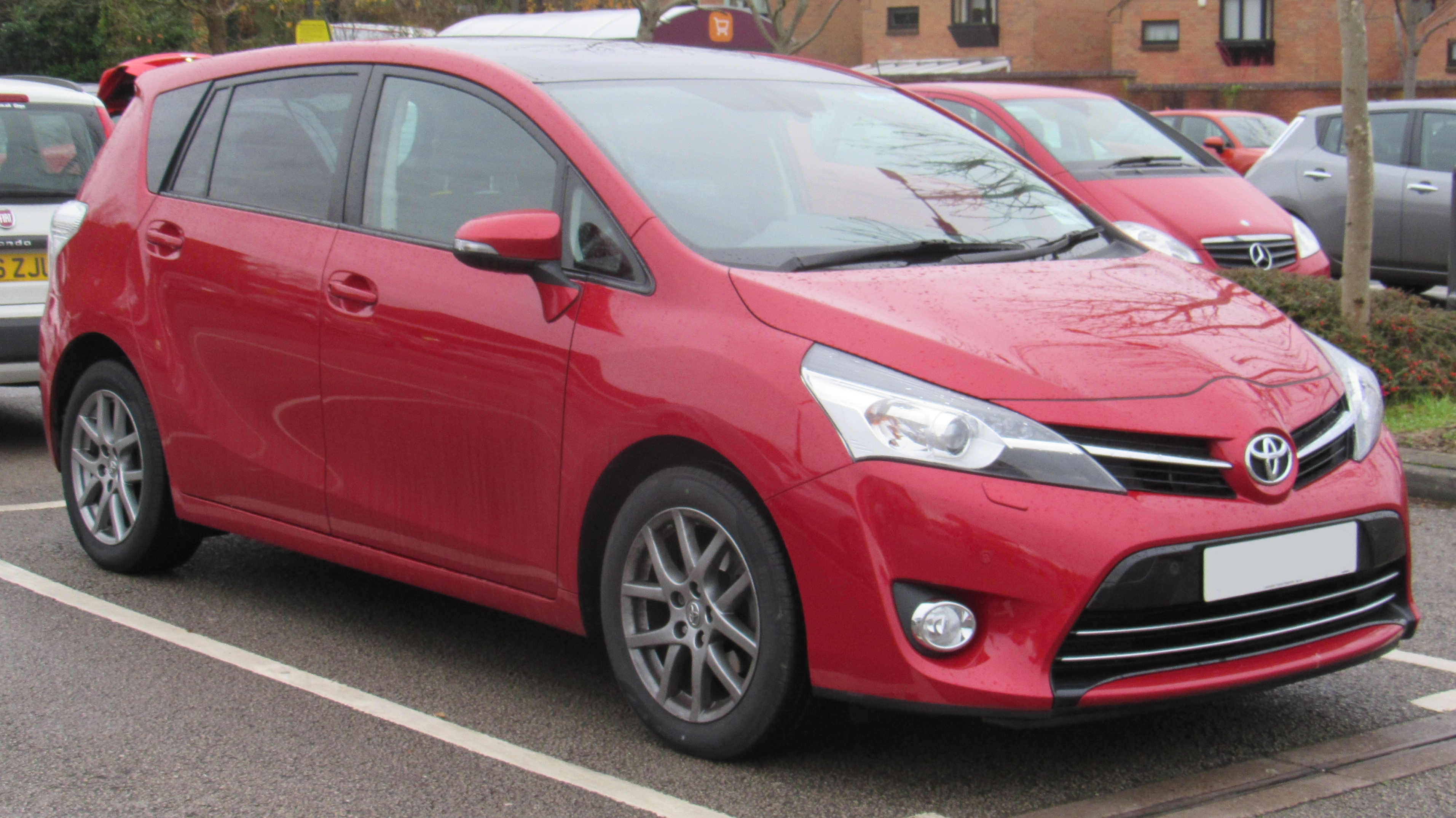 2014 Toyota Verso Excel D-4d 1.6 facelift Front Taken in Warwick